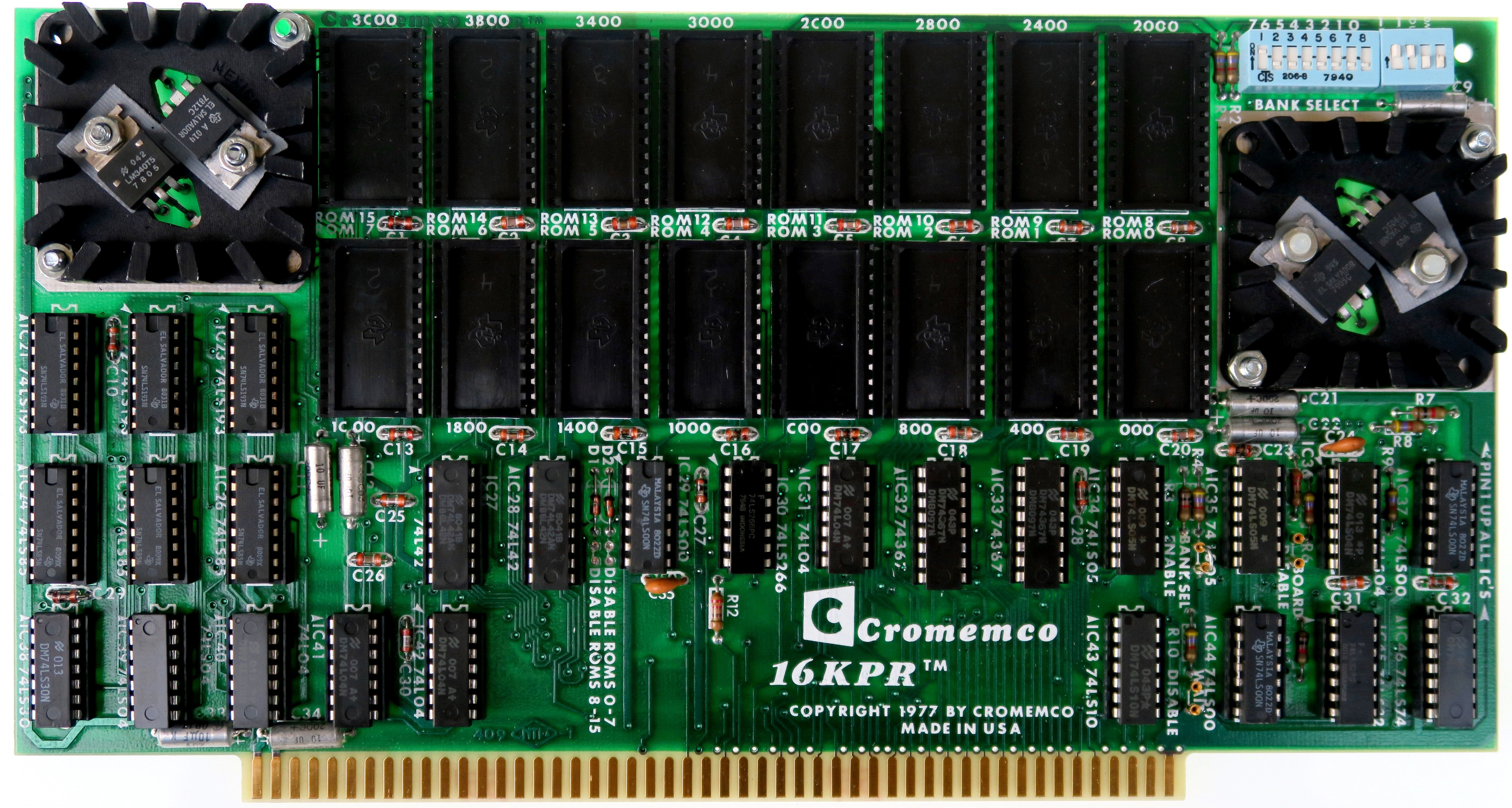 Cromemco 16KPR Memory Card for the S-100 Bus introduced in 1977. The 16KPR had the capacity to hold up to 16 Intel 2708 EPROMs for up to 16KB of storage. The 16KPR also had Bank Select so that the card could be mapped into any of 8 banks of 64KB memory space.